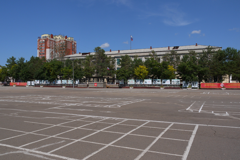 ДВВКУ